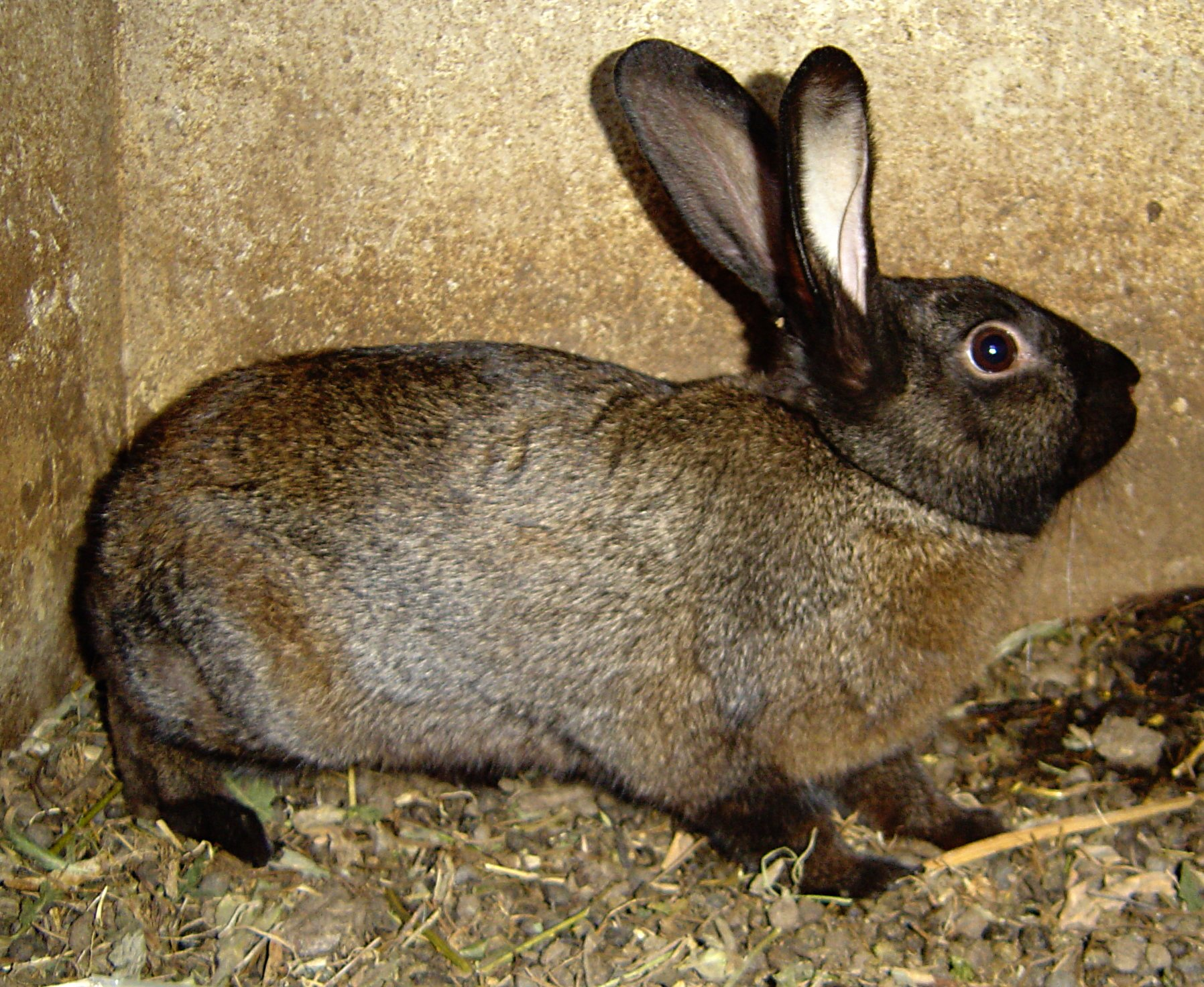 a rabbit (Oryctolagus cuniculus), unknown domestic breed